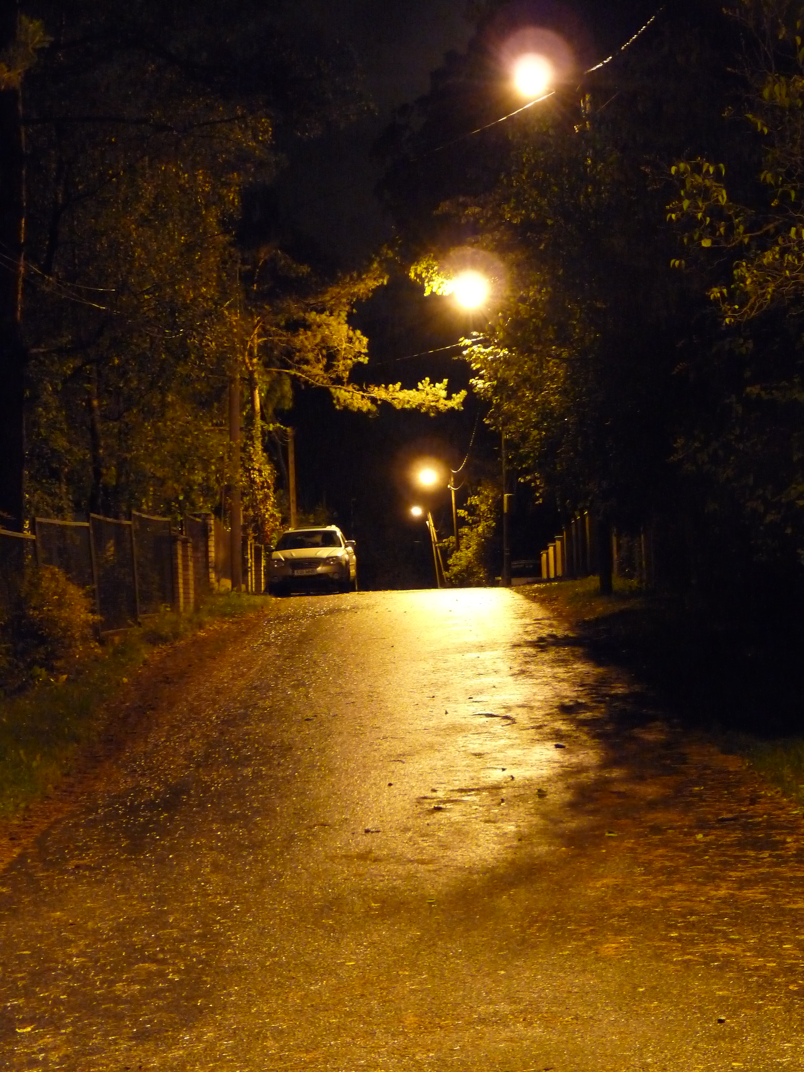 Jõhvika street in Tallinn, Estonia